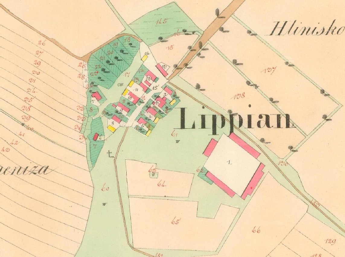 Dukovany-Lipňany. Part of Imperial Imprint of the Stable Cadastre from 1825